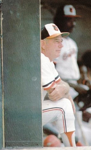 Professional baseball coach George Bamberger